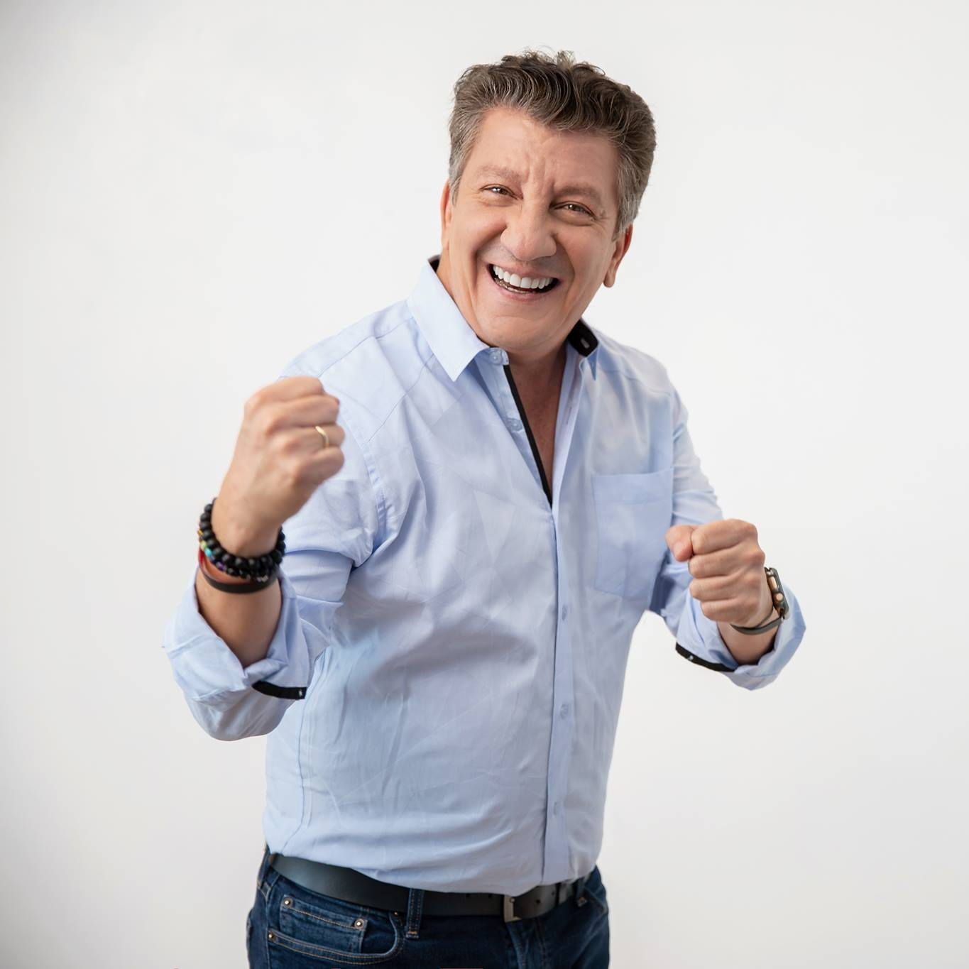 Succes, re invention.